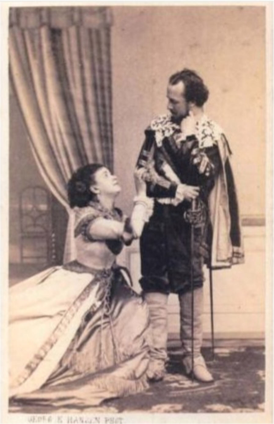 Mariano Padilla und Sarolta de Bujanovis als Renato und Amelia in Verdis Un ballo in maschera, Copenhagen 1867